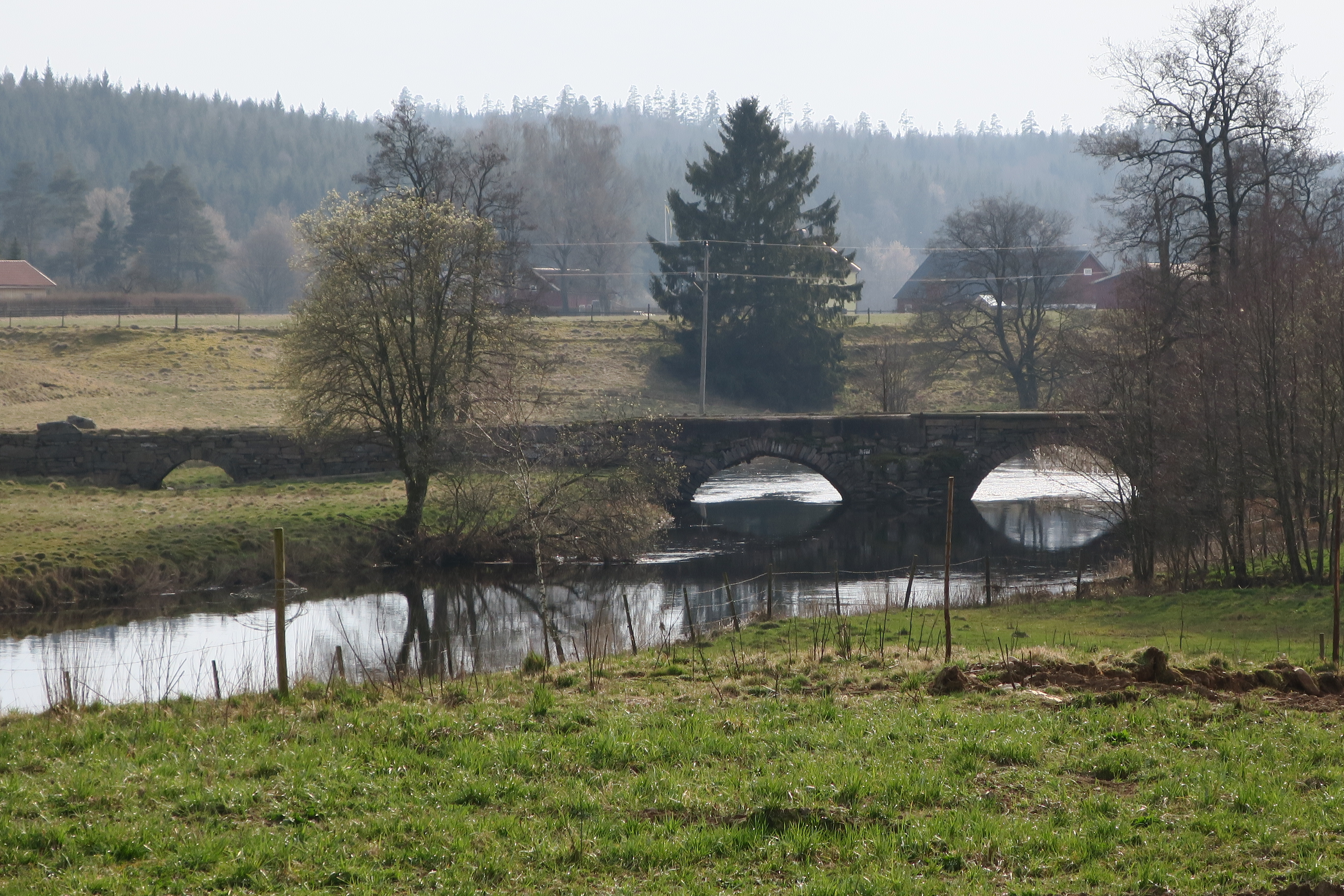 Springtime at the river Viskan. An old bridge in Seglora, near Viskadalens folkhögskola, Sweden.